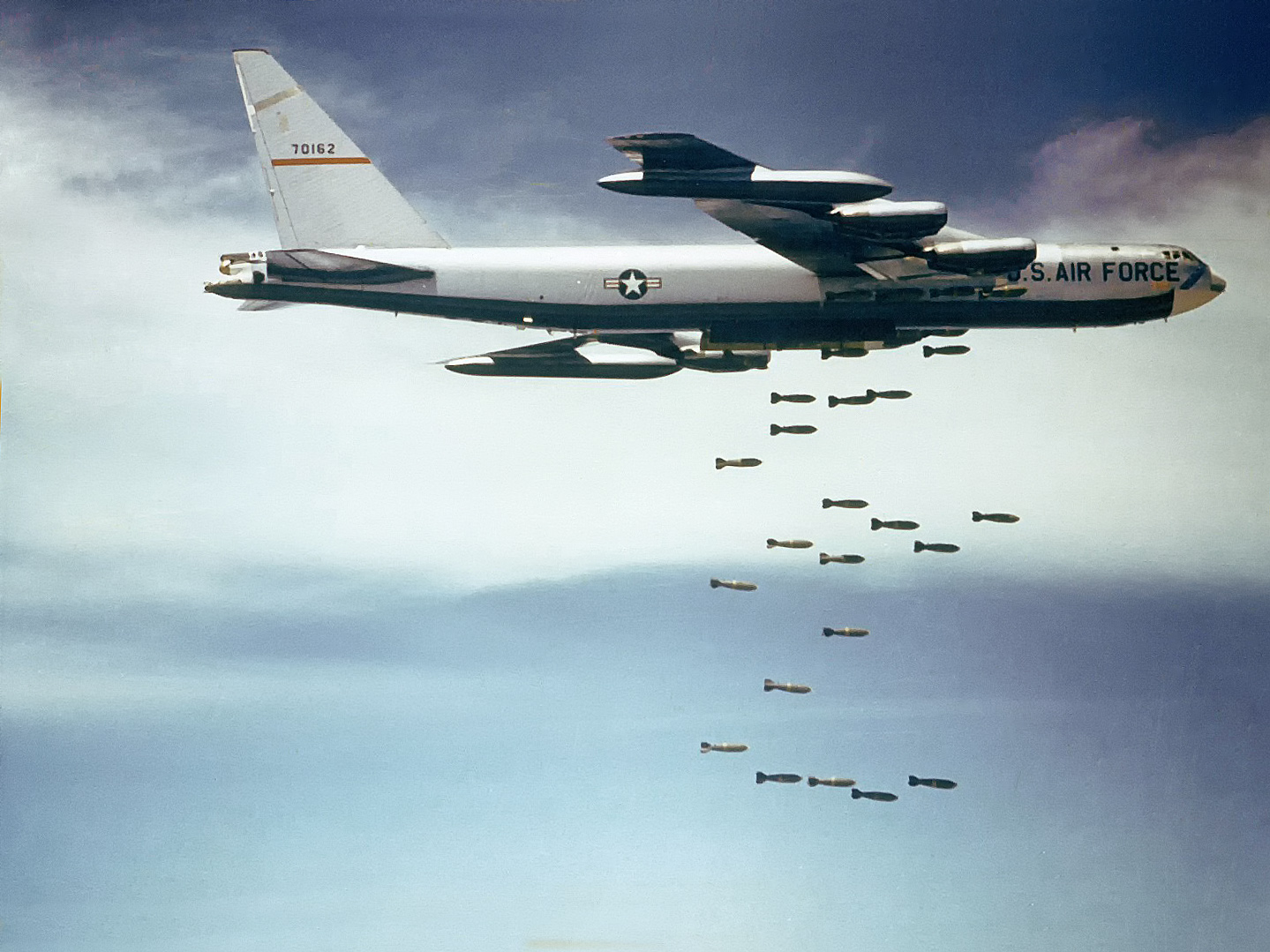 A U.S. Air Force Boeing B-52F-70-BW Stratofortress (s/n 57-0162, nicknamed "Casper The Friendly Ghost") from the 320th Bomb Wing dropping Mk 117 750 lb (340 kg) bombs over Vietnam. This aircraft was the first B-52F used to test conventional bombing in 1964, and later dropped the 50,000th bomb of the "Arc Light" campaign. B-52Fs could carry 51 bombs and served in Vietnam from June 1965 to April 1966 when they were replaced by "Big Belly" B-52Ds which could carry 108 bombs.